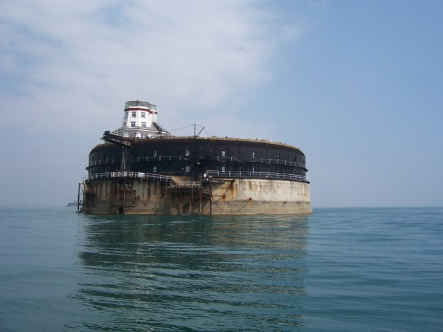 No Man's Land Fort - Spithead